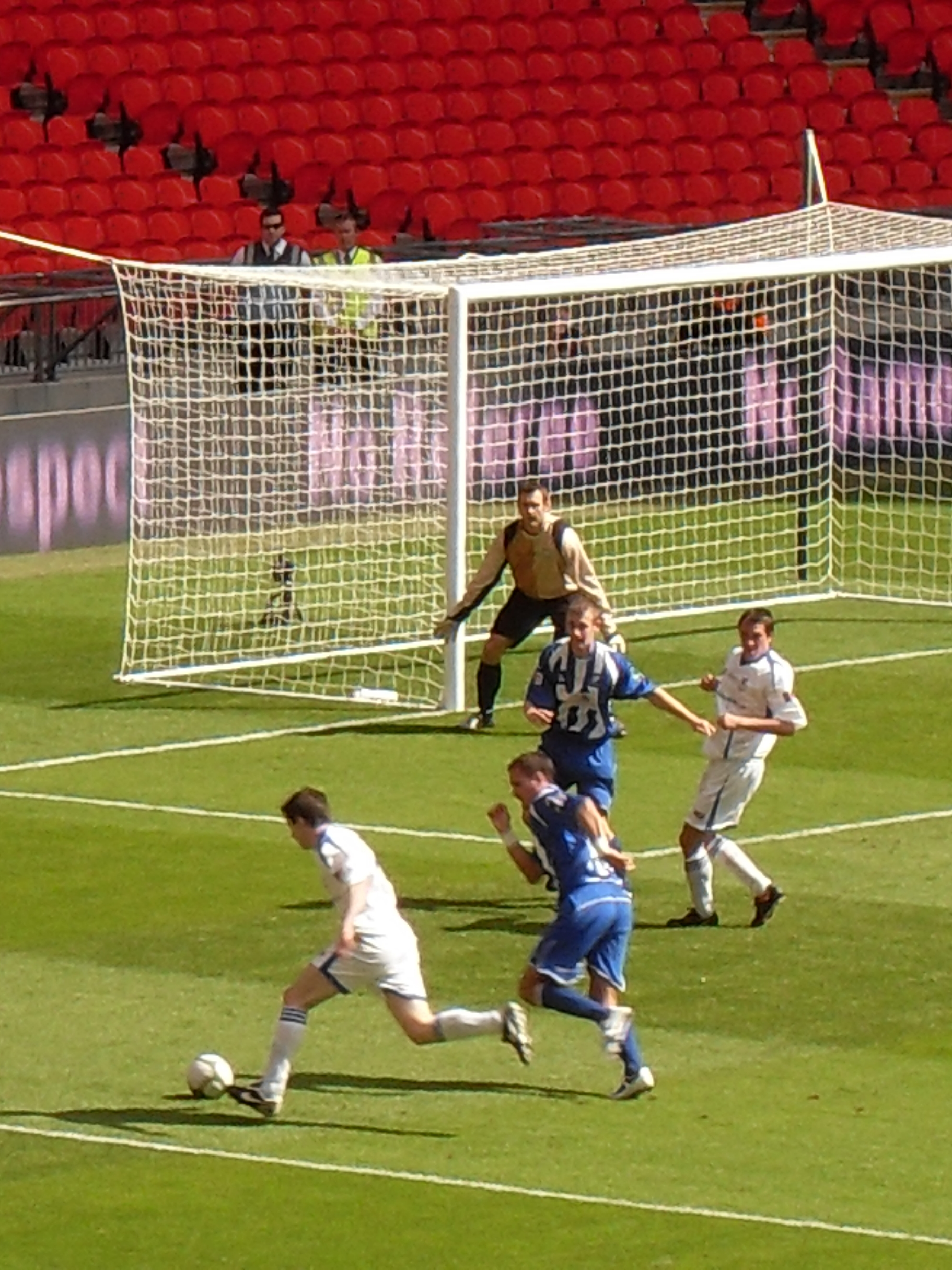 Action from the 2009 FA Vase final. Photo taken by "Maenie", original URL